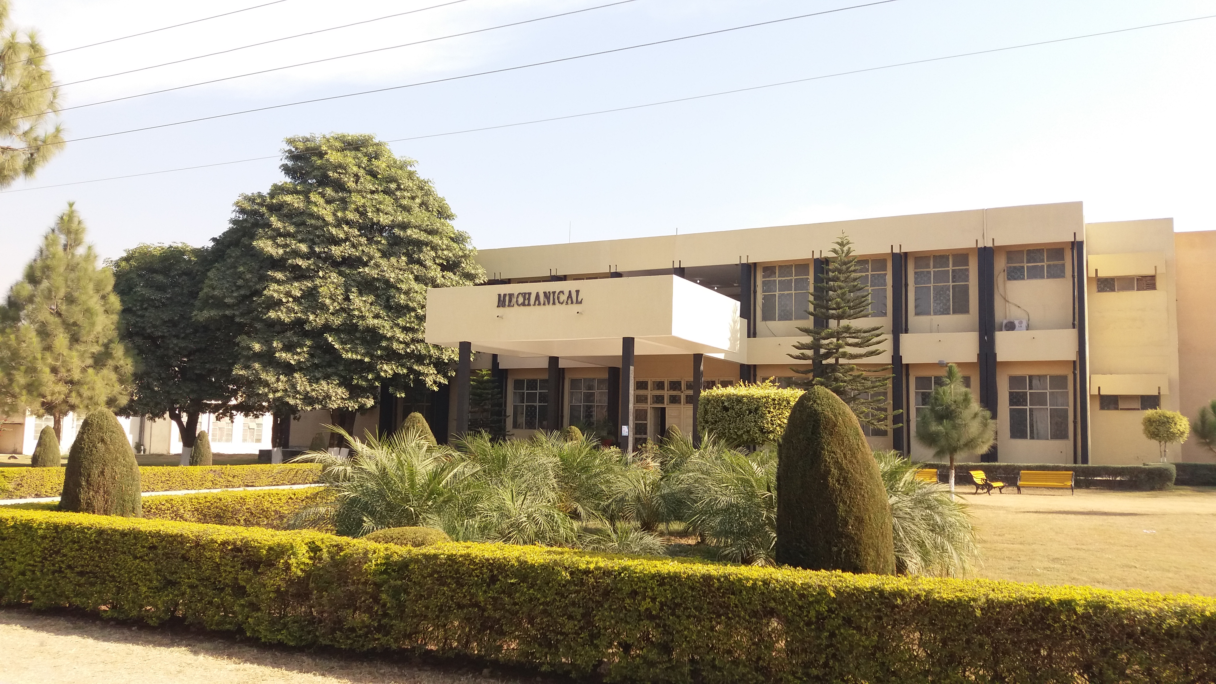 Department of Mechanical Engineering, UET Taxila. In extension to this department, Department of Industrial Engineering is also located.